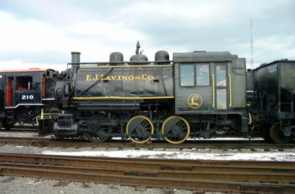 E.J. Lavino and Company locomotive number 3 at Steamtown National Historic Site.